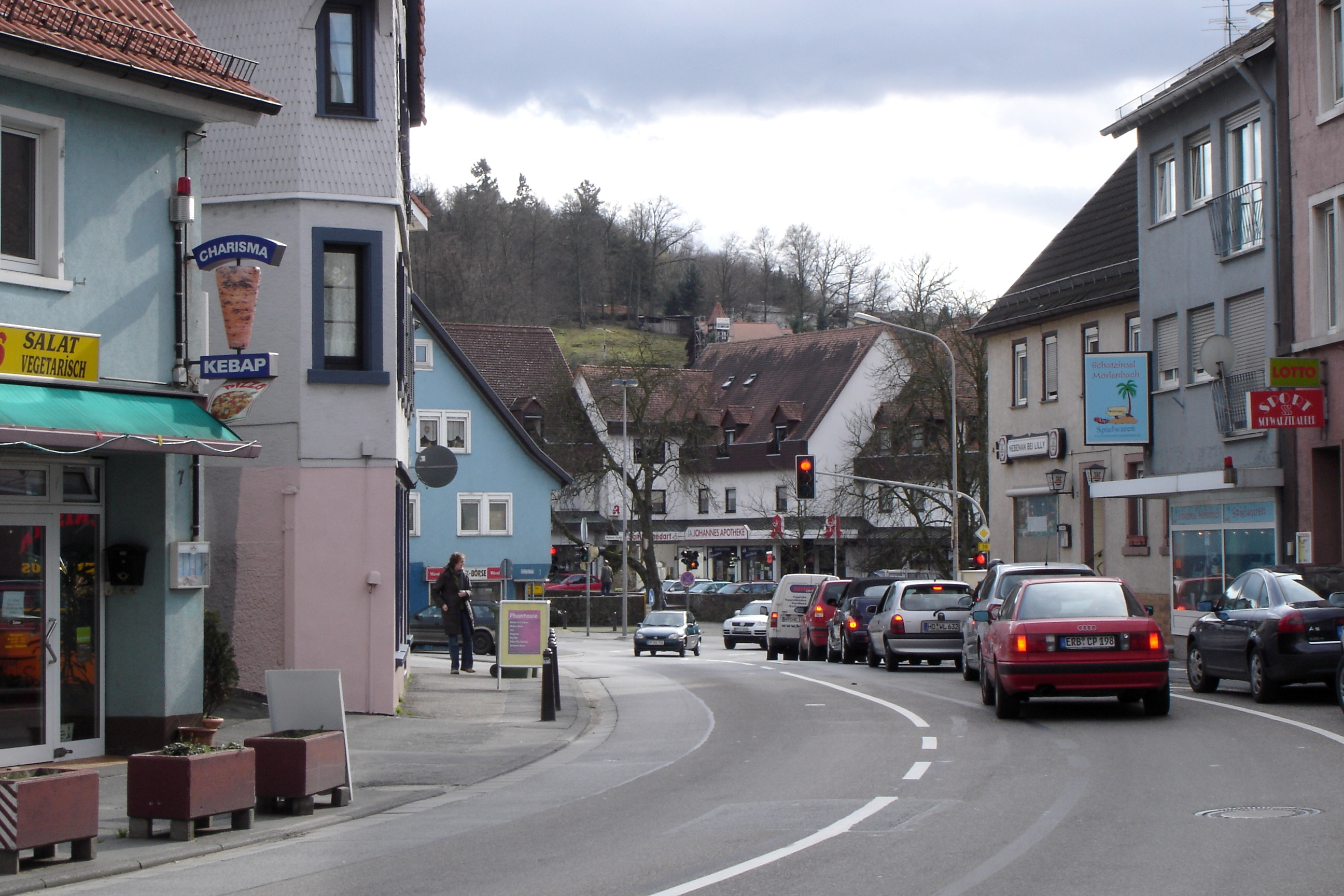 Centre of Mörlenbach/Germany